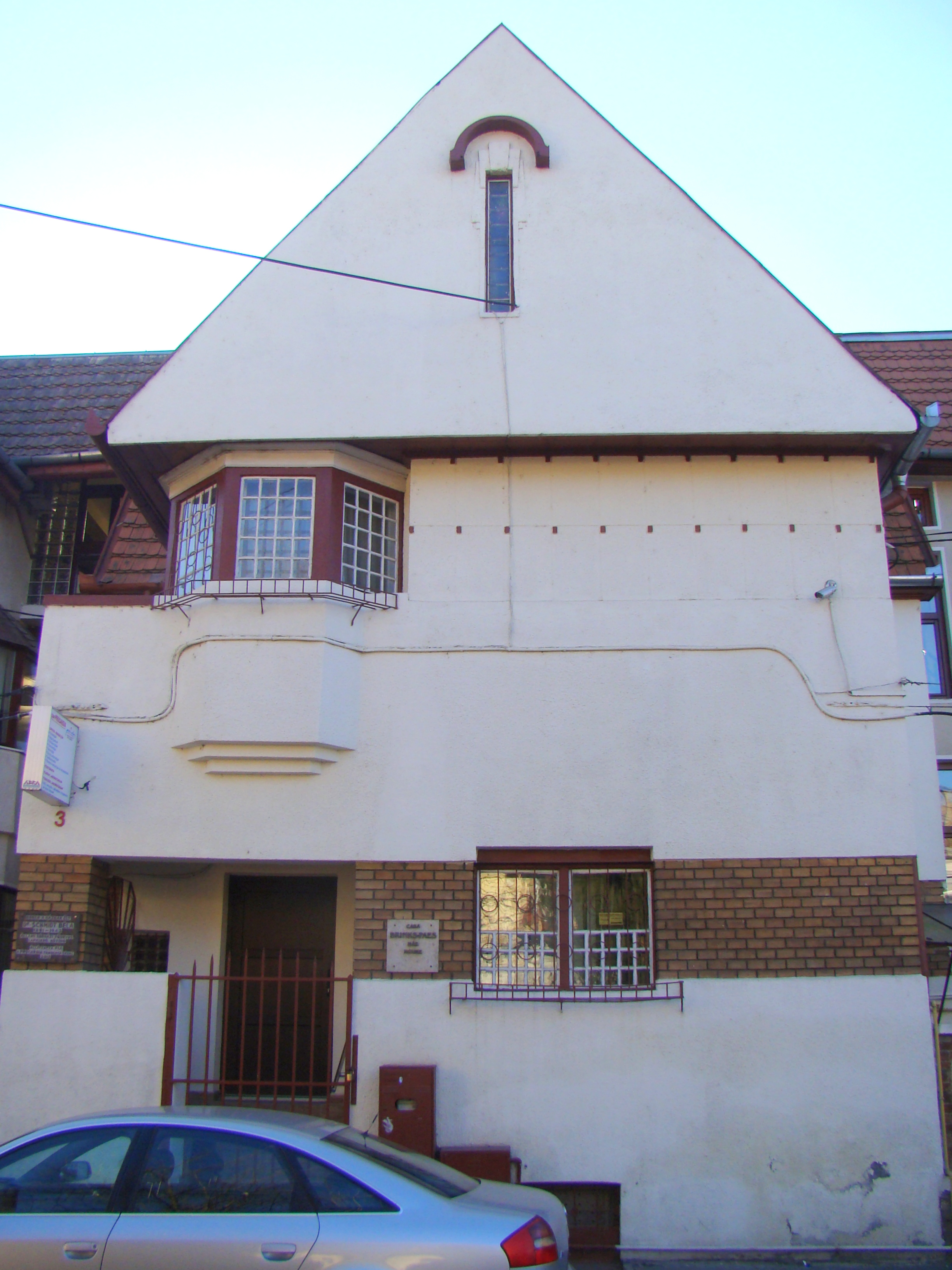 Schmidt house in Târgu Mureș, Mureș county, Romania